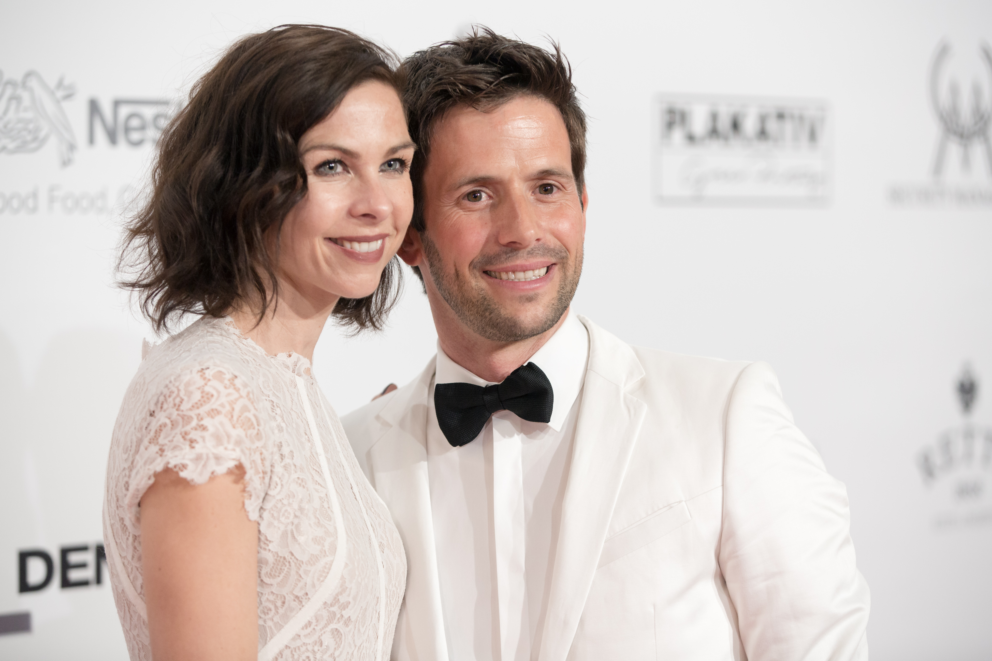 Jessica Mazur and Christian Oliver on the red carpet of the Filmball Vienna 2016 at Rathaus, Vienna, Austria.